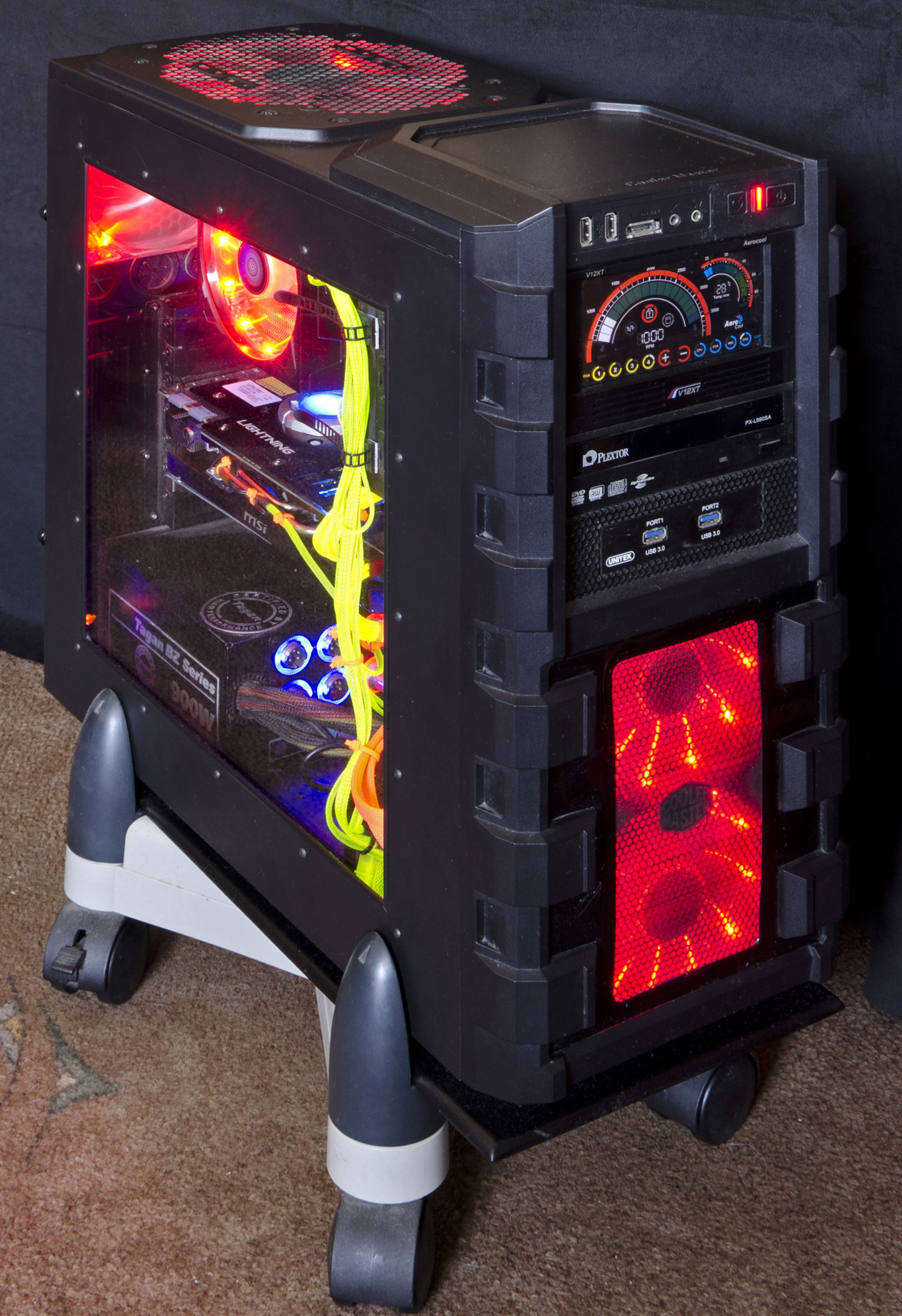 Computer modding